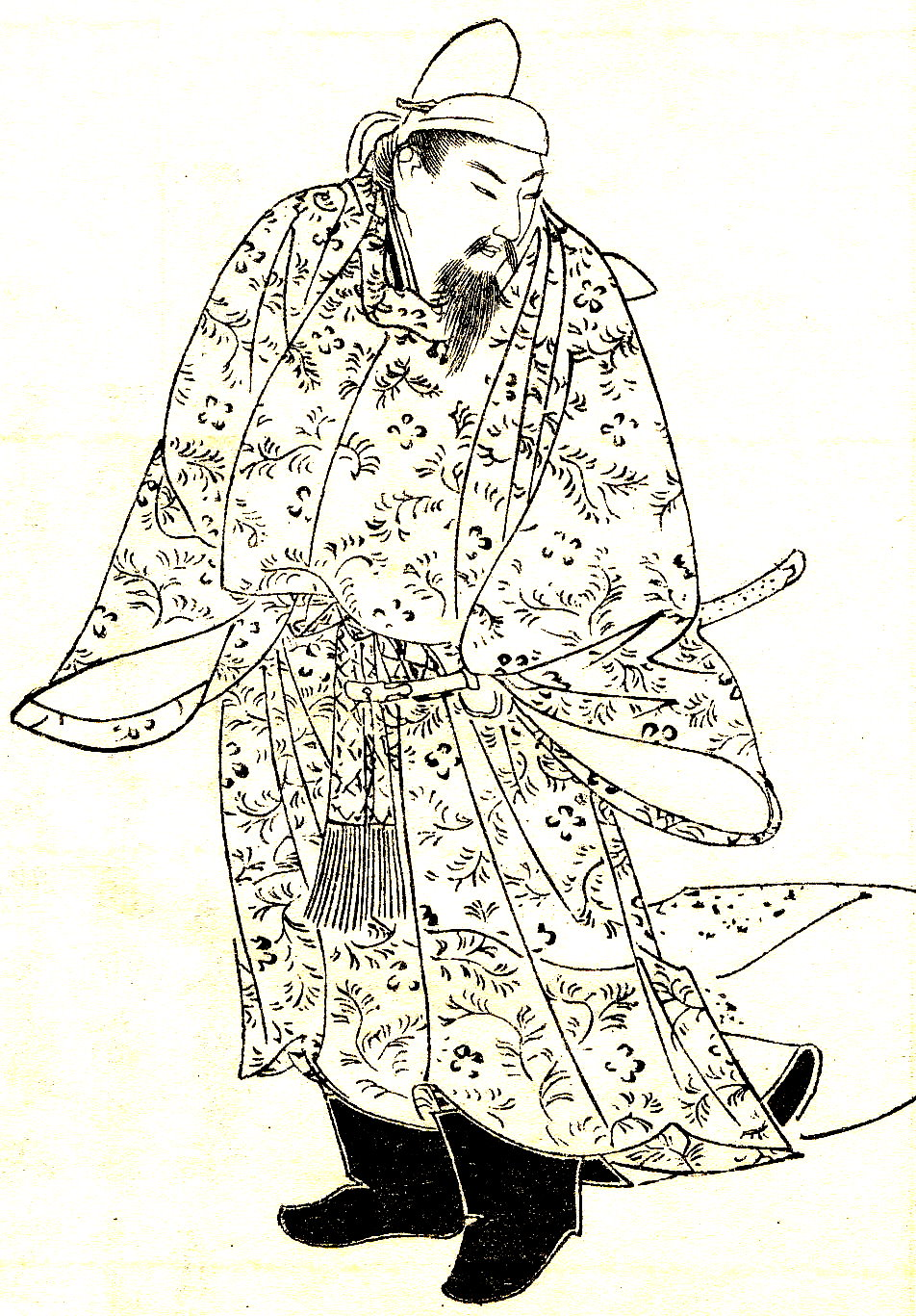 Minamoto no Tokiwa(源常）was a Japanese politician and court noble in the early Heian periods.This picture was drawn by Kikuchi Yosai（菊池容斎） who was a painter in Japan.